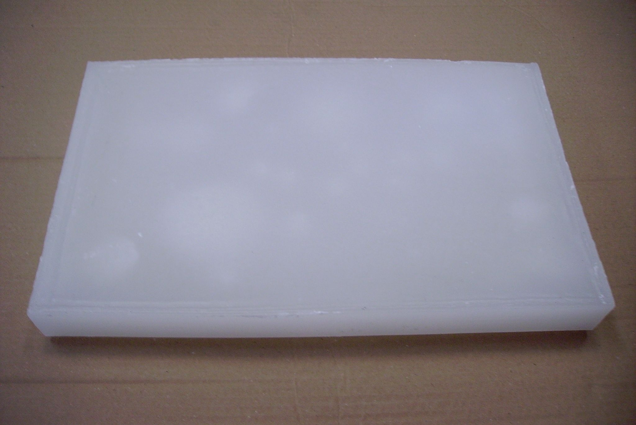 Paraffin wax.